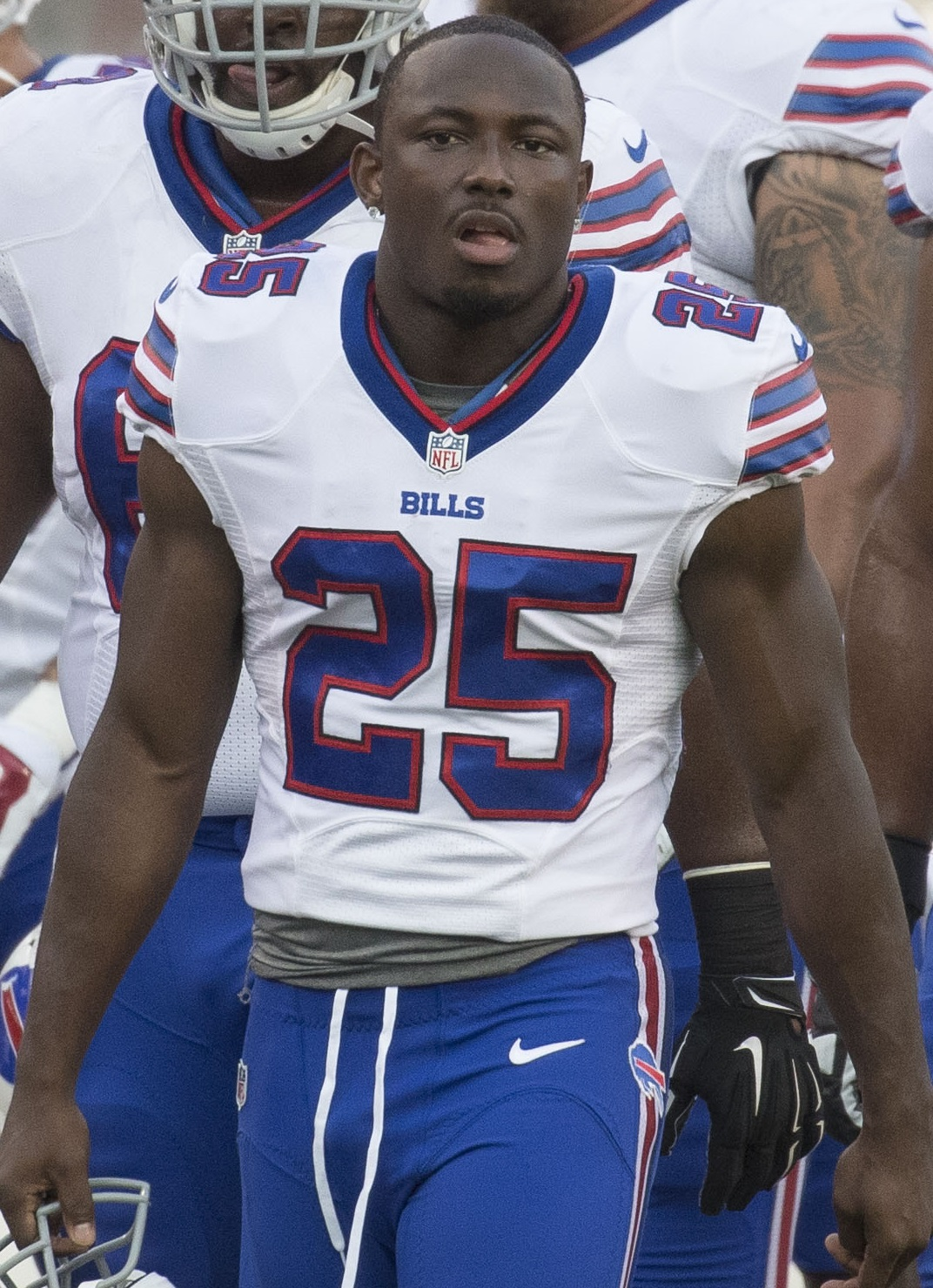 Bills at Redskins 8/26/16